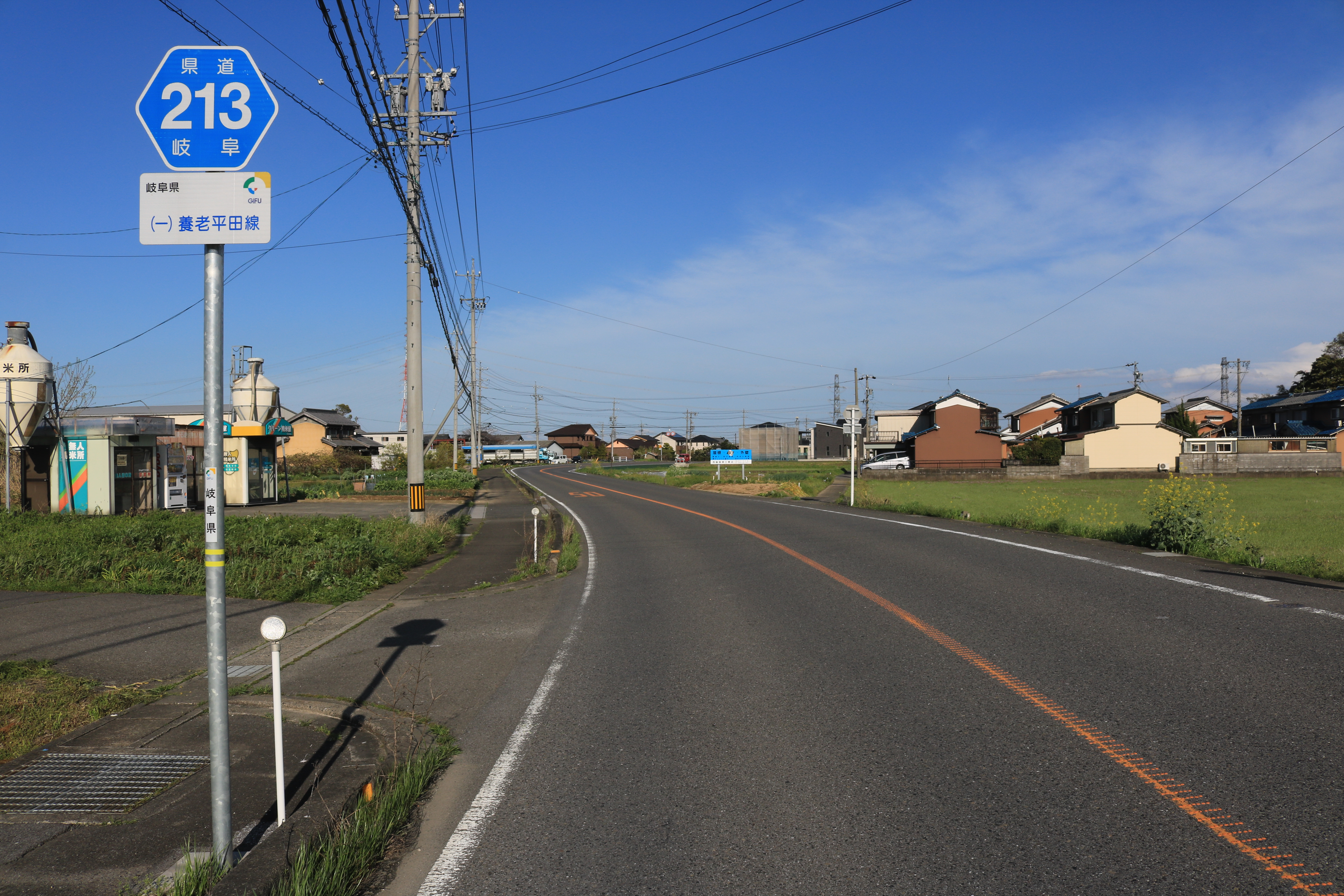 Gifu Prefectural Road Route 213 in Shimogasa, Yoro, Gifu prefecture, Japan.